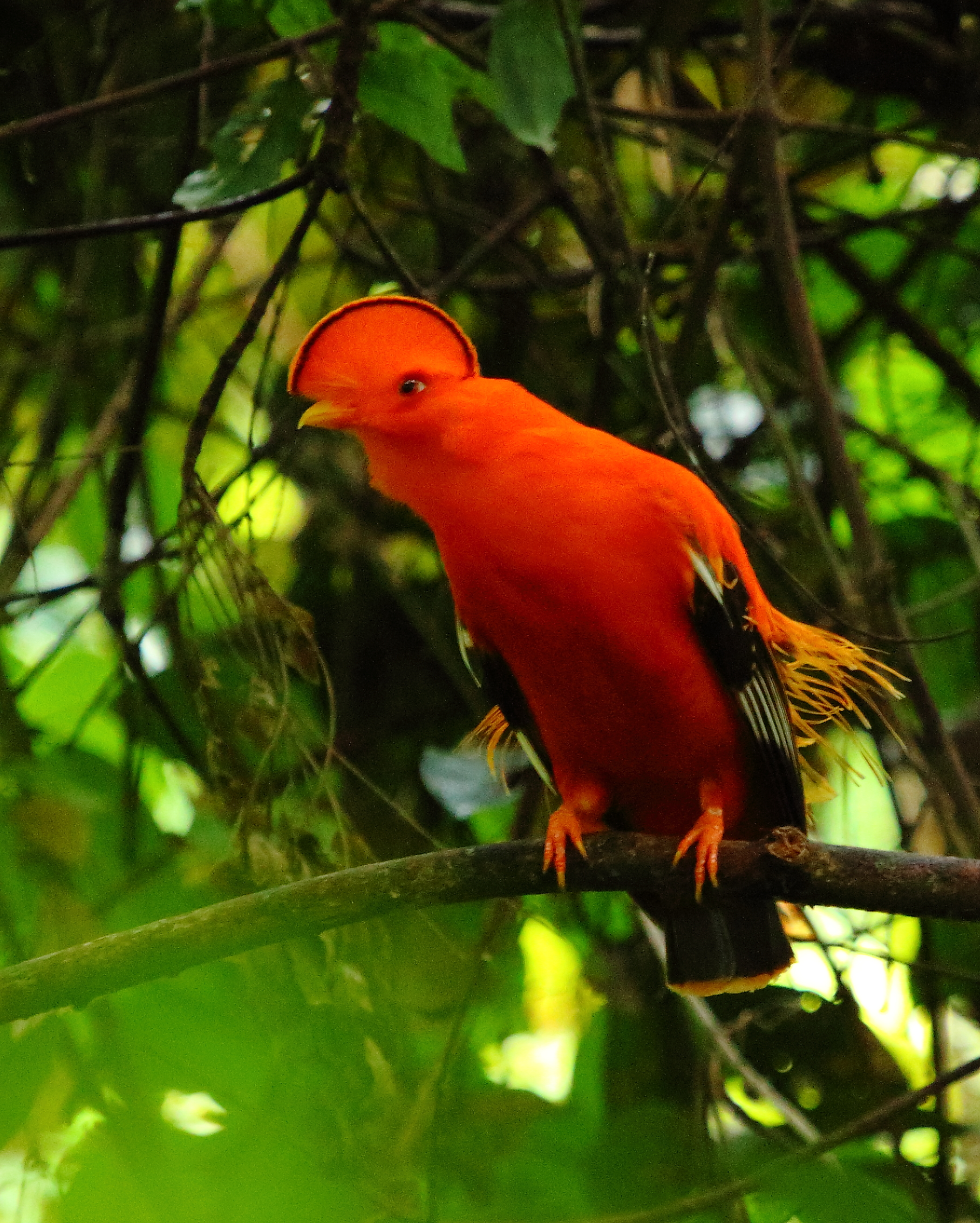 Guianan cock-of-the-rock (Rupicola rupicola) Iwokrama mar2015